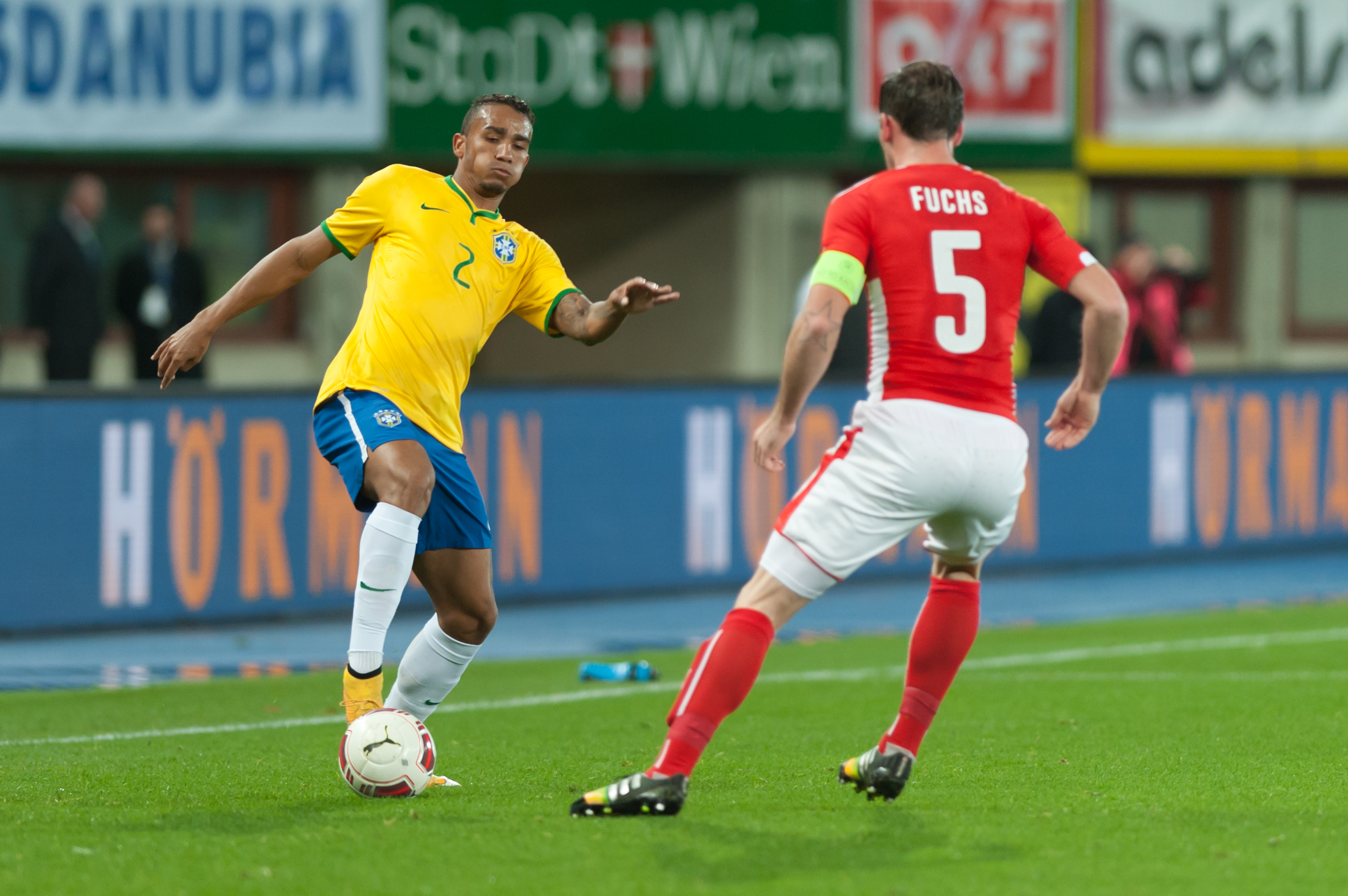 International Friendly Austria - Brazil November 18, 2014: Danilo